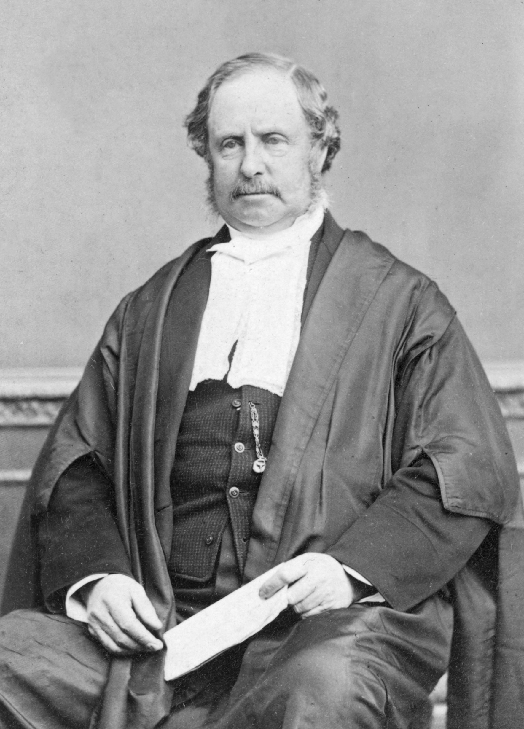 Portrait of David Monro, circa 1873, photographed by Swan & Wrigglesworth.